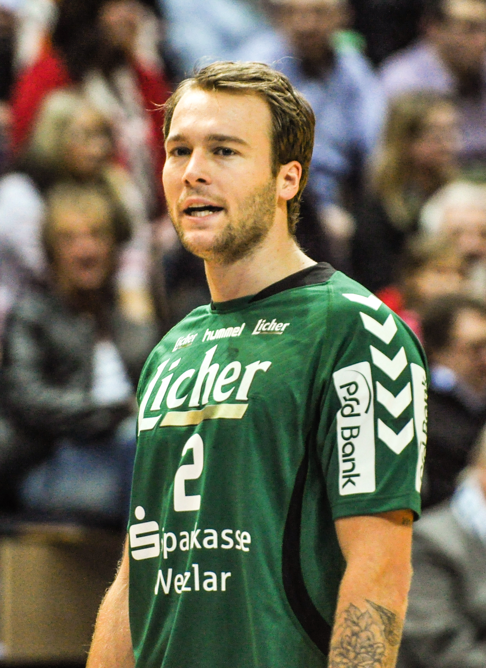 taken on February 8, 2014 during DKB Handball-Bundesliga match between HSG Wetzlar and HSV Hamburg